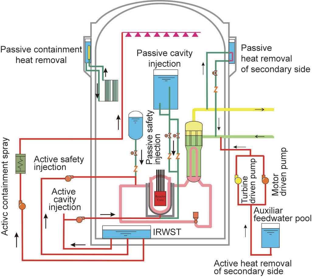 Active and passive cooling systems of HPR1000 (aka Hualong One) nuclear reactor. Red line − active systems; green line − passive systems; IRWST − in-containment refueling water storage tank.